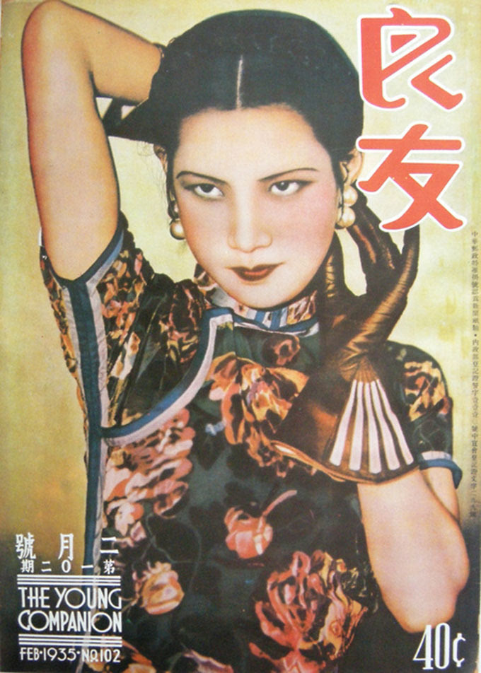 Liangyou Pictorial, Issue #102, featuring Hu Ping (胡萍). Enclyclopedia Baidu article.